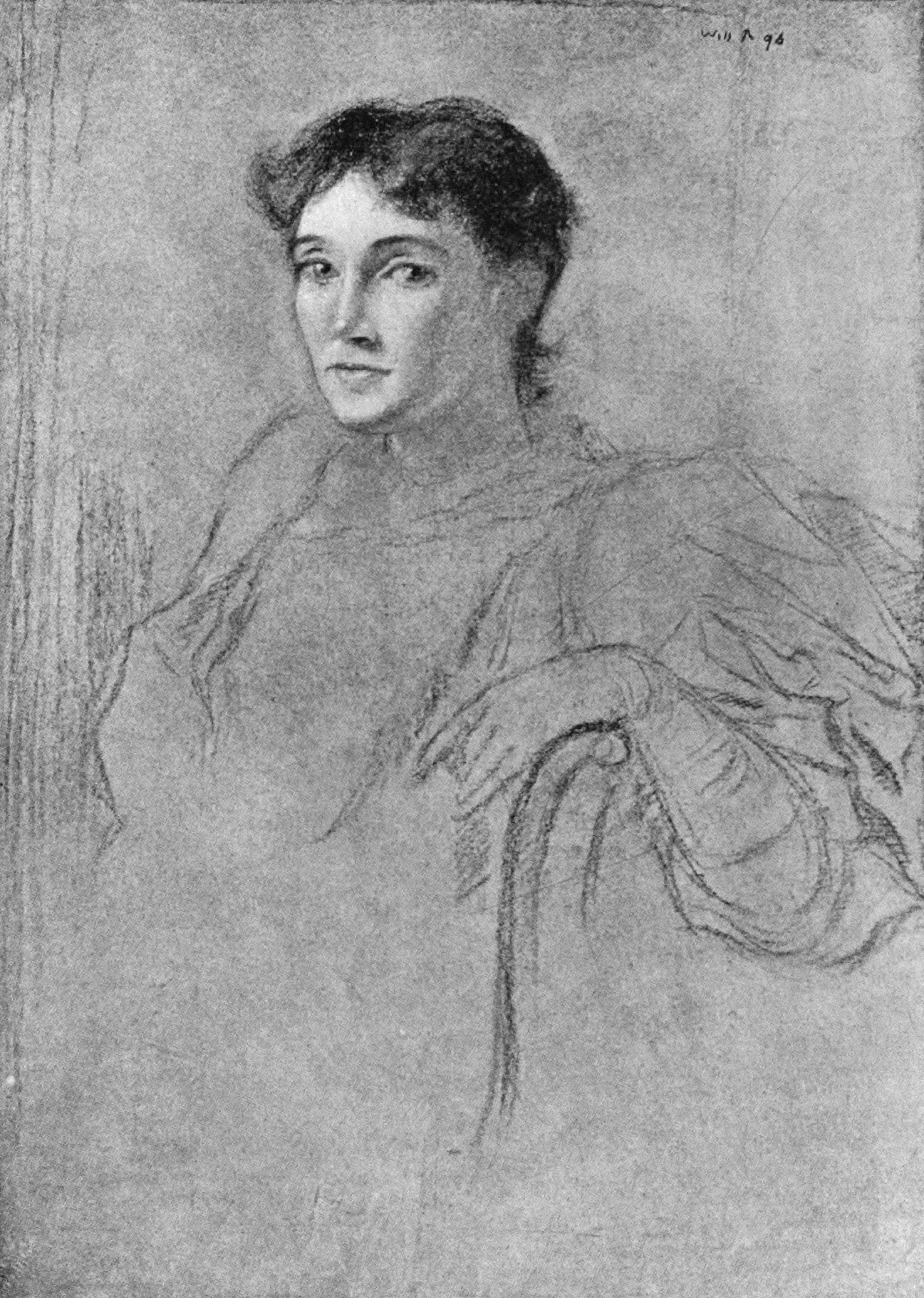 Pearl Mary Teresa Craigie (November 3, 1867 – August 13, 1906) was an Anglo-American novelist and dramatist who wrote under the pen-name of John Oliver Hobbes.